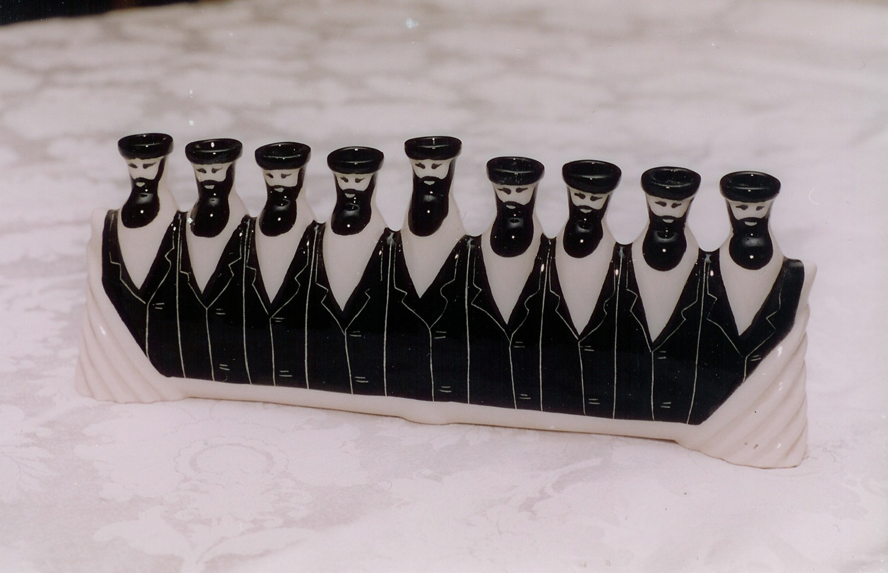 Photo of artistic porcelain Chanuka menorah in the shape of 8 Hasidim, taken on March 30 2006 by Yoninah.